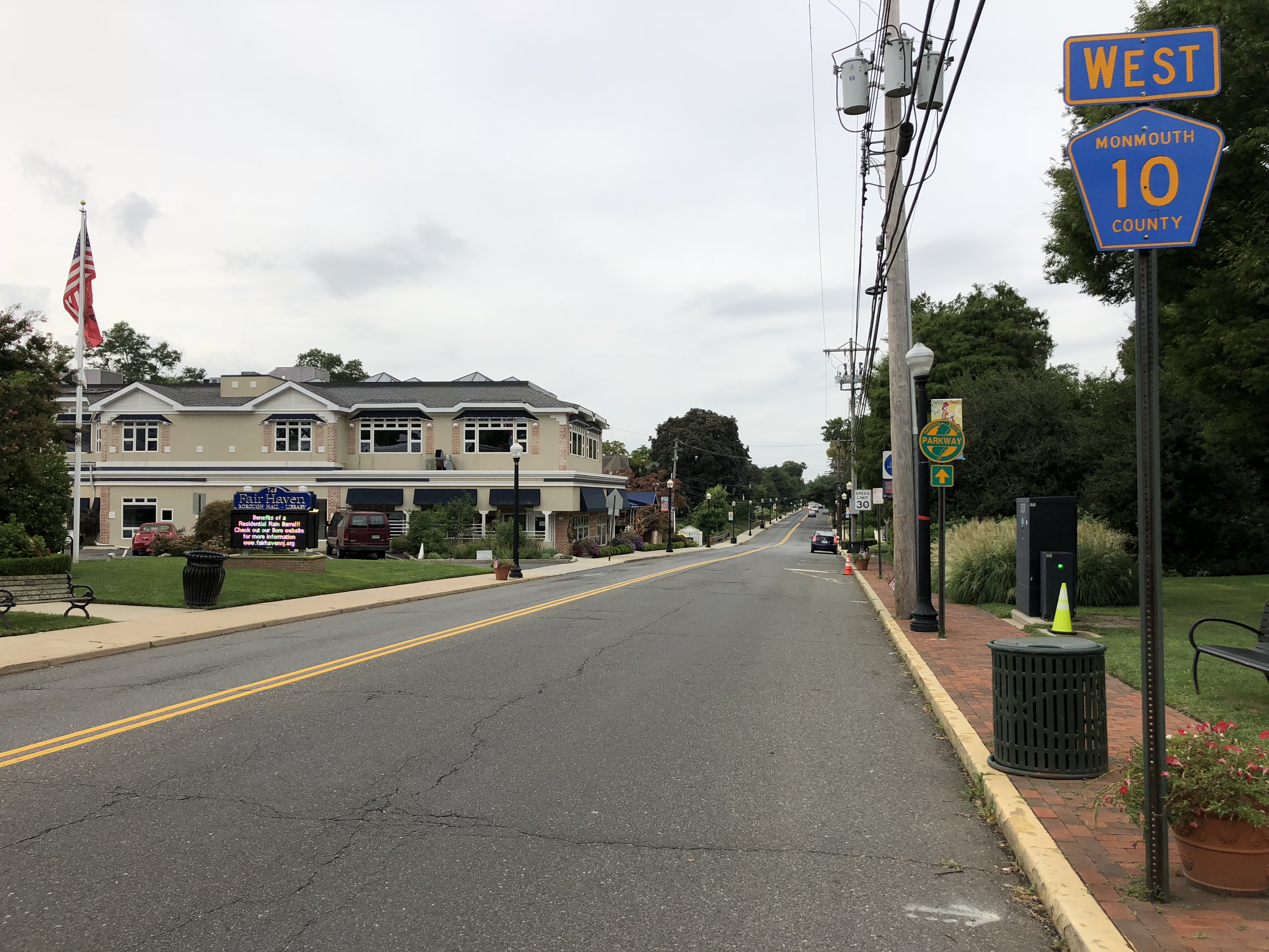 View west along Monmouth County Route 10 (River Road) at Fair Haven Road in Fair Haven, Monmouth County, New Jersey